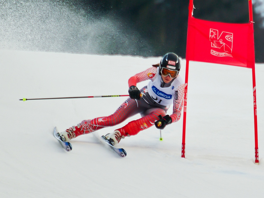 Austrian alpine skier Mirjam Puchner in the second Giant slalom run at the Austrian Junior Championships 2008 in Lackenhof.